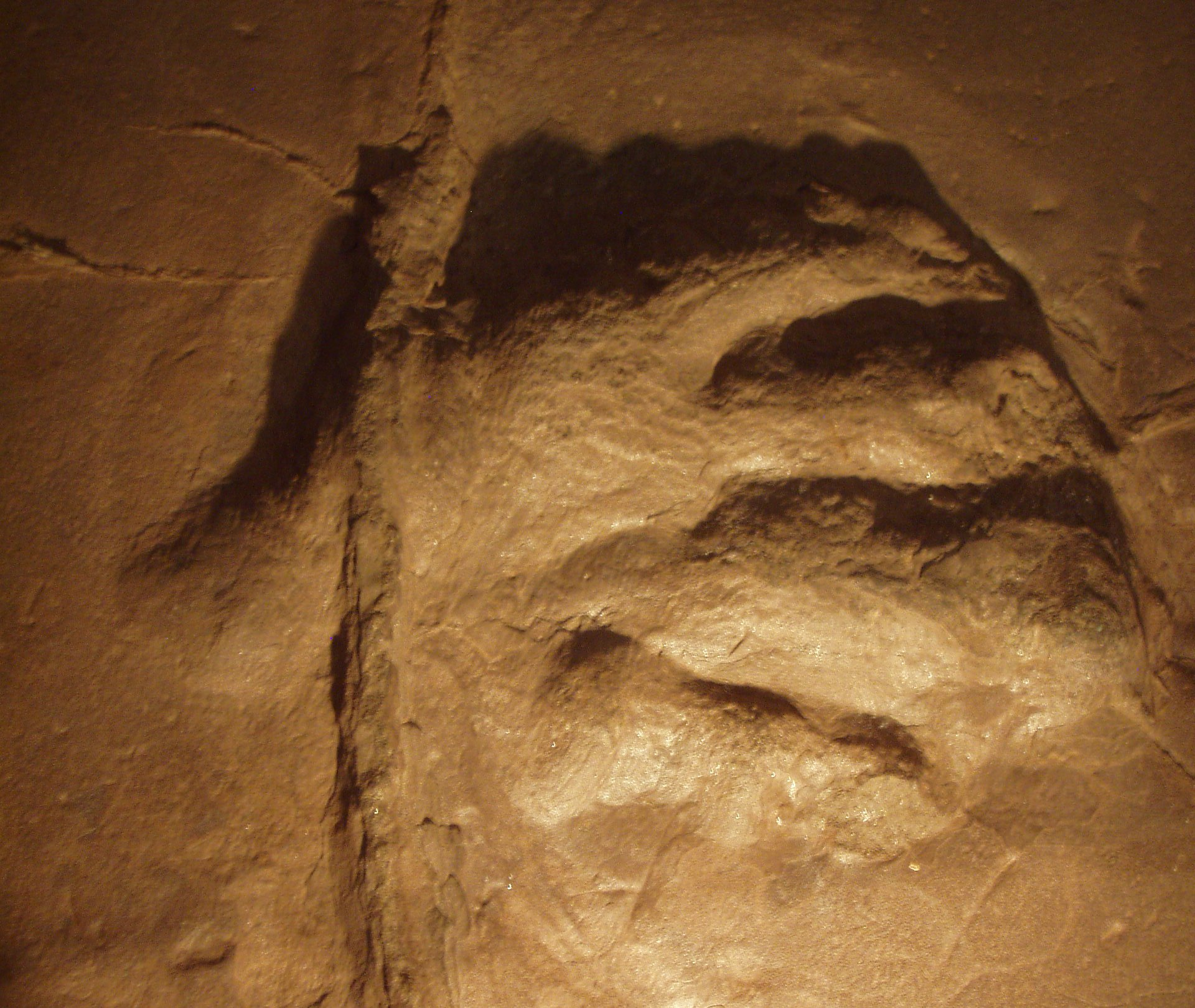 Crop of file in filename